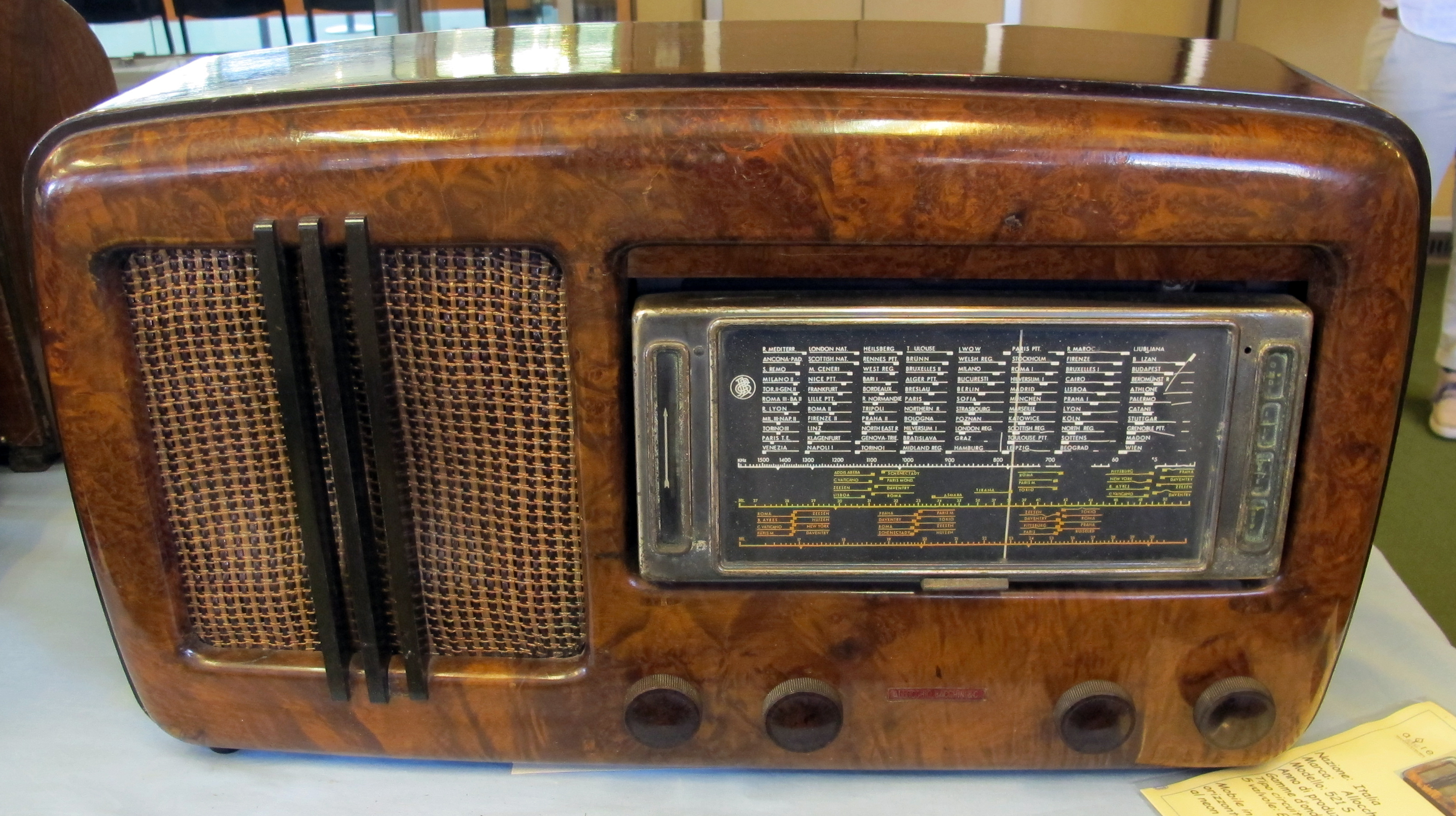 Antique radios amateurs exhibition (Florence 2014)